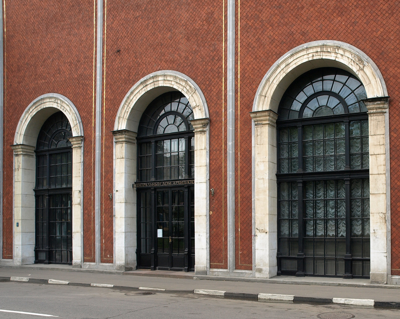 Granatny Lane, Moscow.